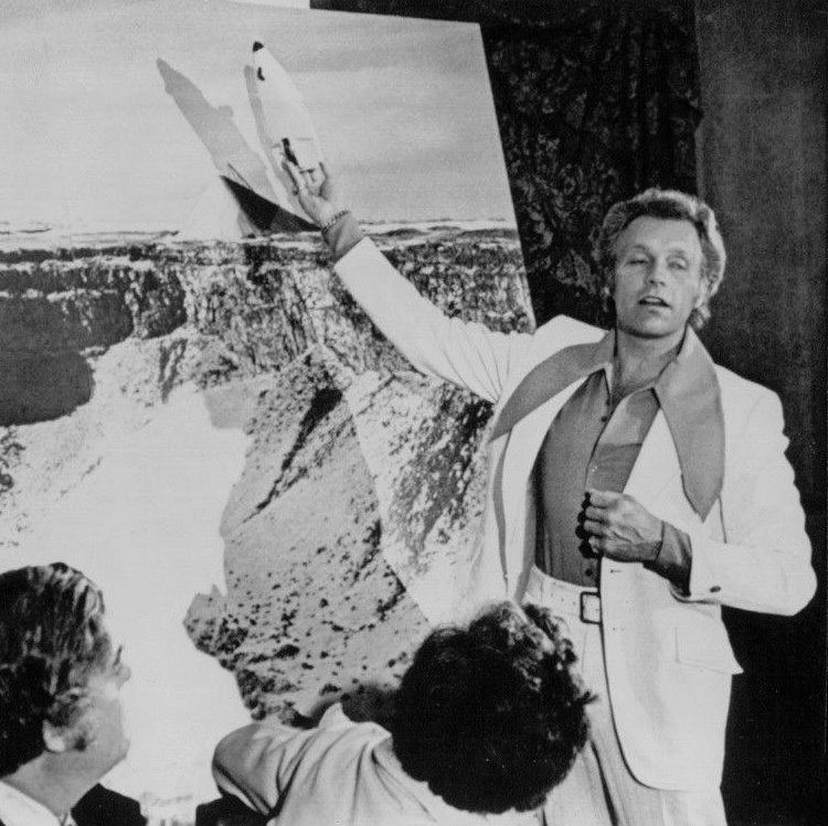 LG302 1974 Wire Photo EVEL KNIEVEL Plans to Jump SNAKE RIVER CANYONE Stuntman